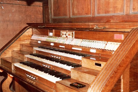 Console of the organ Carlo Vegezzi Bossi in S.M. Above Minerva in Rome.